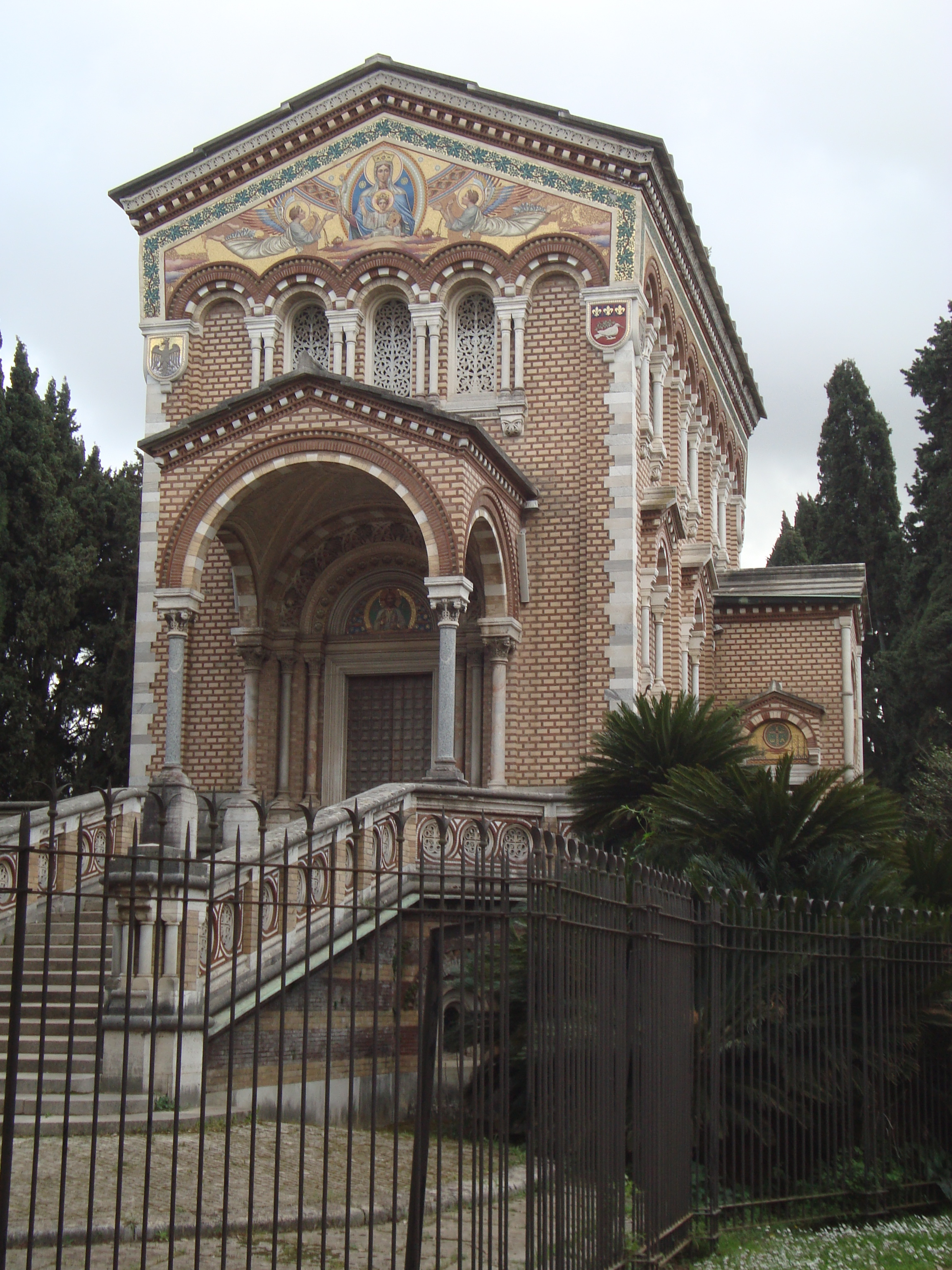 The chapel in the villa Pamphili, Rome